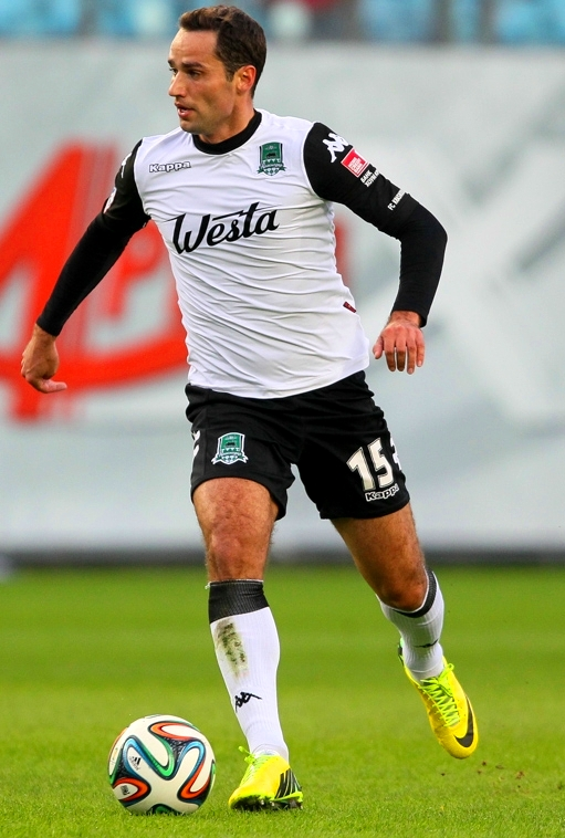 Roman Shirokov2014